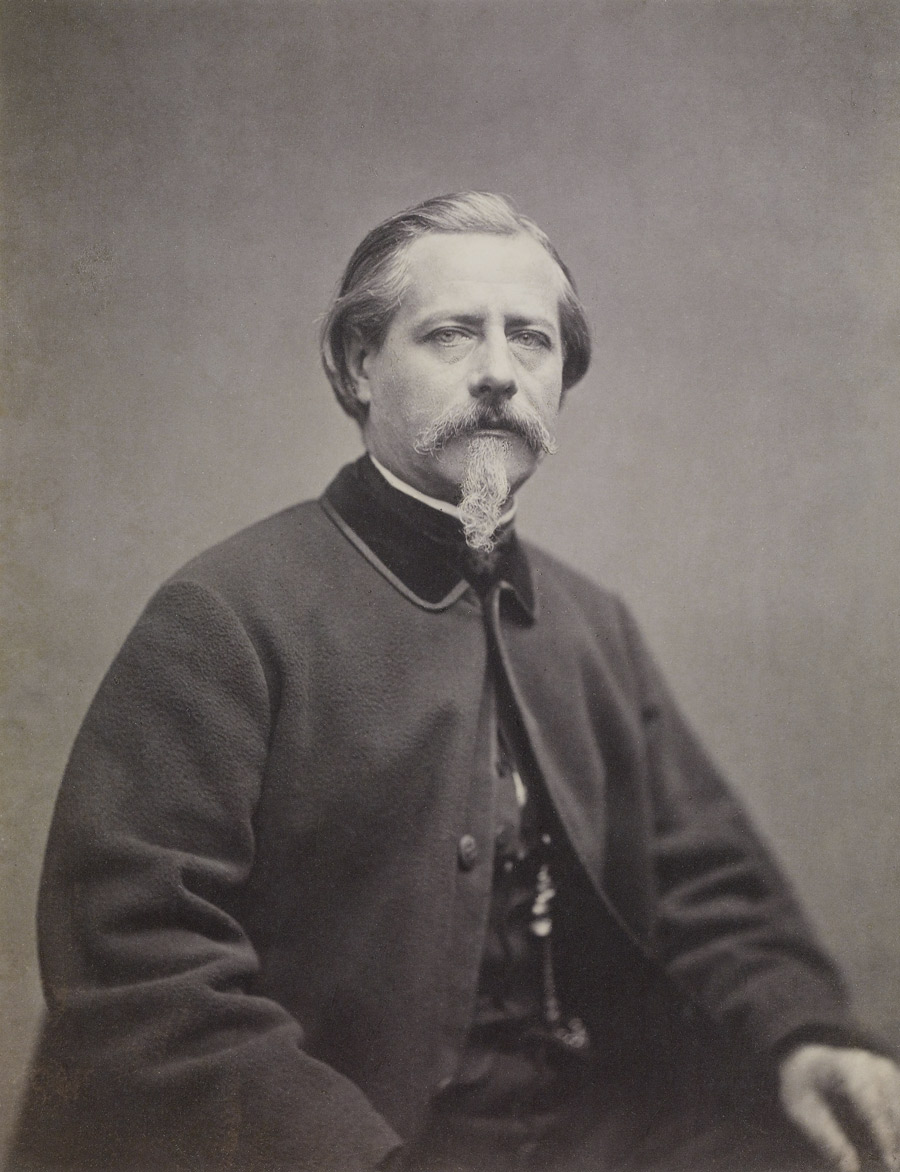 Charles Marville. Selfportrait